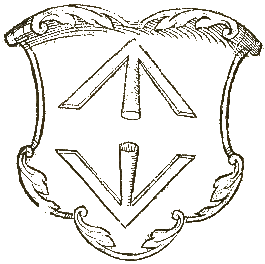 Coat of arms Bogoria from Ambroży Armorial